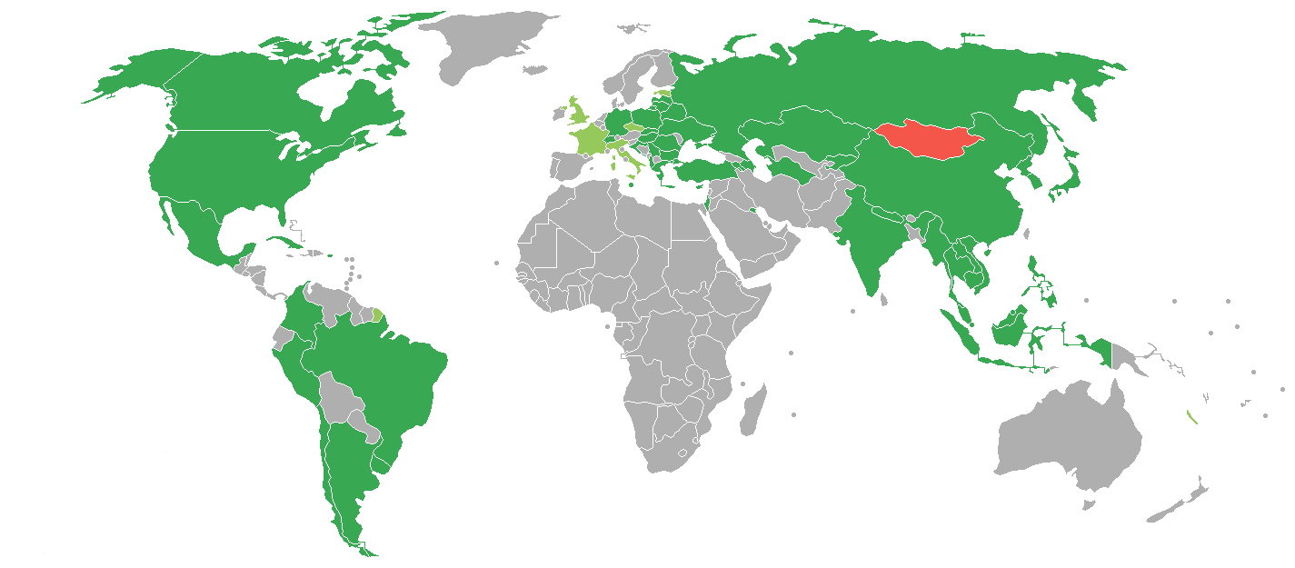 Visa policy of Mongolia for holders of diplomatic or service category passports